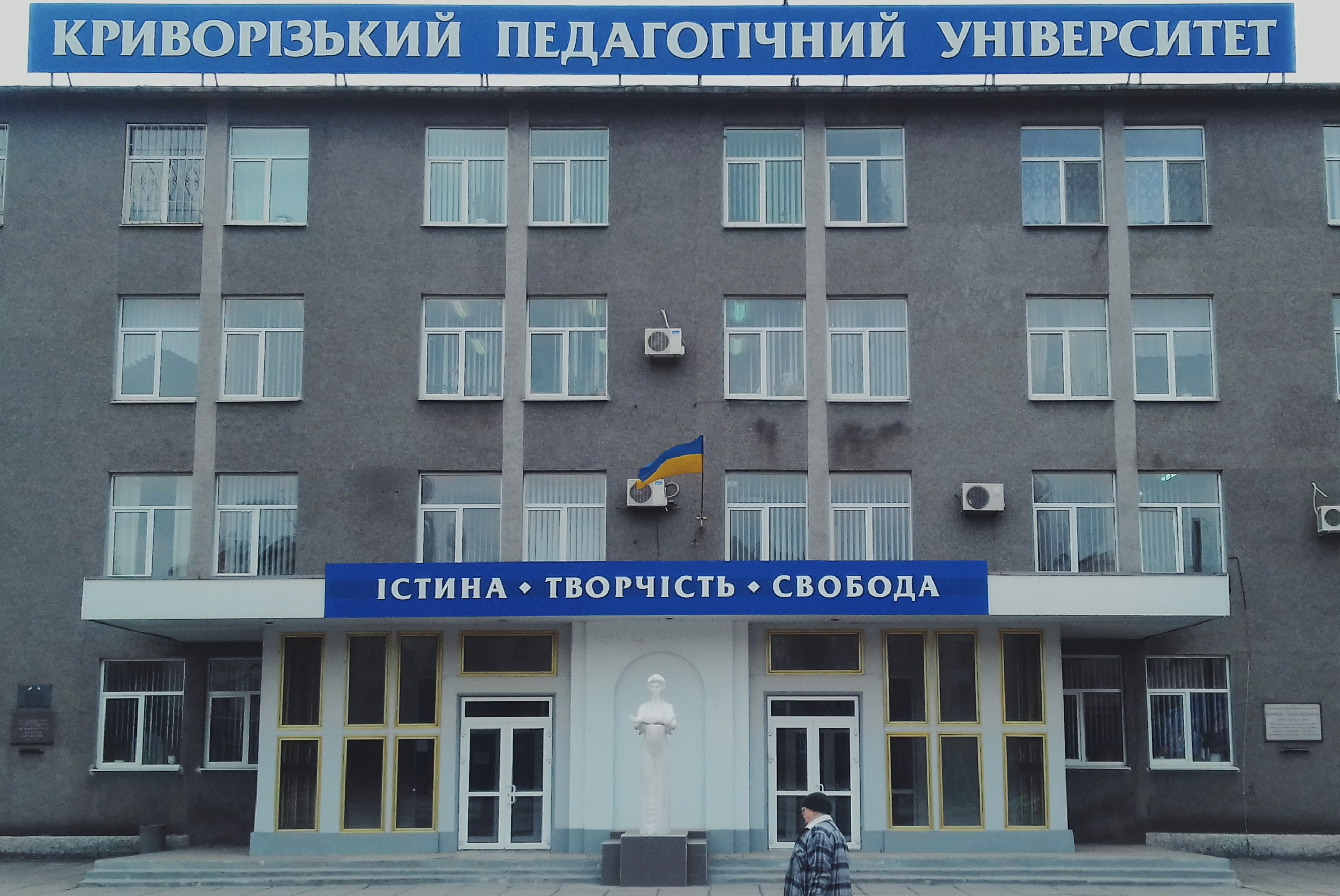 KDPU main building/Криворізький державний педагогічний університет/Криворожский государственный педагогический университет